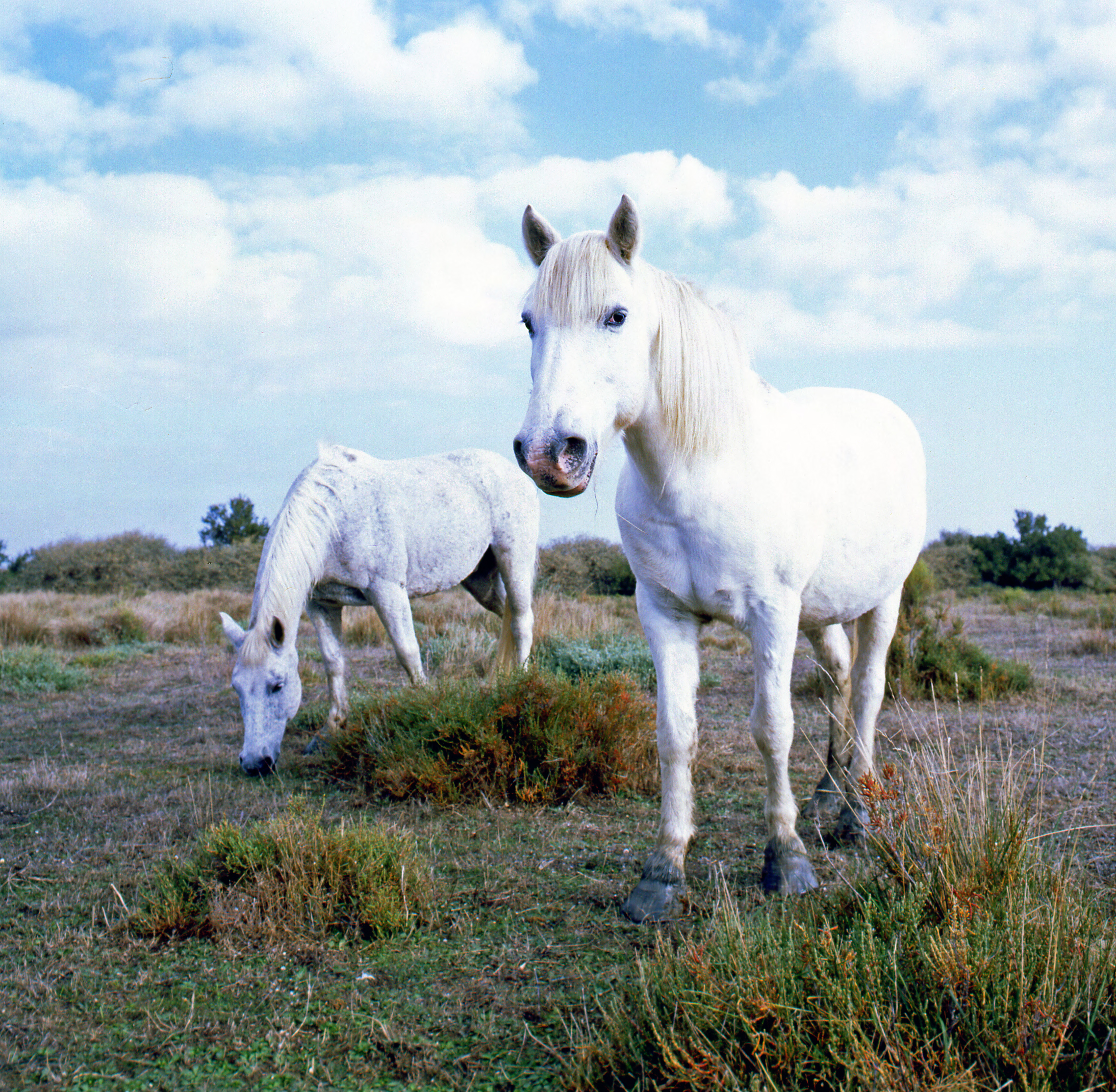 Camargue horse Equus caballus One needs look no further for an inspiration than the picture of a Camargue horse living on the Mediterranean coast in France. Location: Camargue